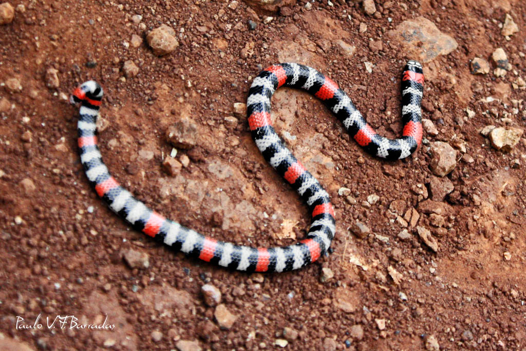 Coral snake -Micrurus frontalis mesopotamicus (Barrio & Miranda 1967)- in Parque Estadual do Turvo - Derrubadas in Rio Grande do Sul, Brazil